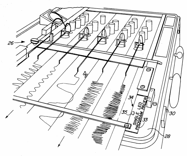 Polygraph.